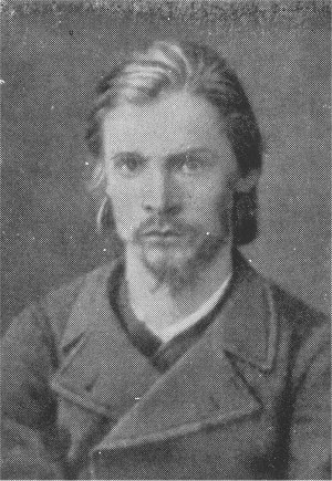 Pyotr Yakovlevich Shevyryov, Narodnik Russian revolutionary